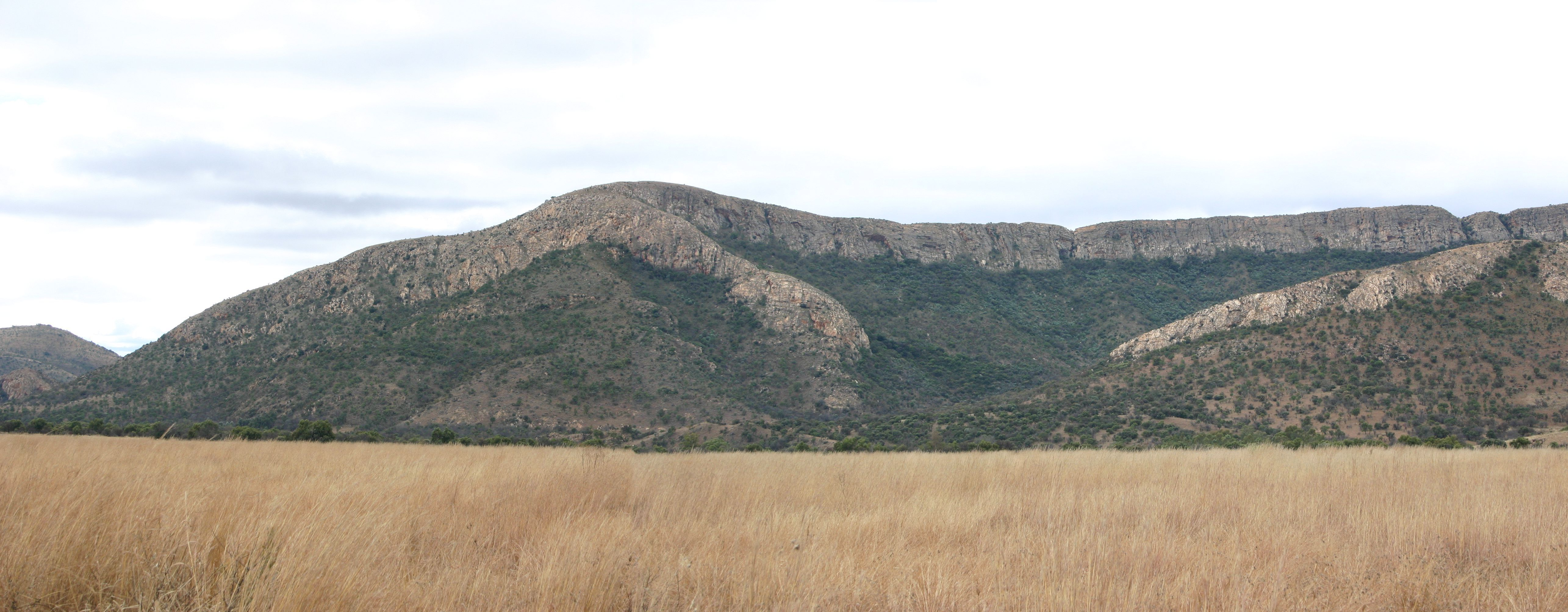 Looking northeast at fault in Magaliesberg near Olifantsnek. 25° 48′ 06″ S, 27° 16′ 43″ E